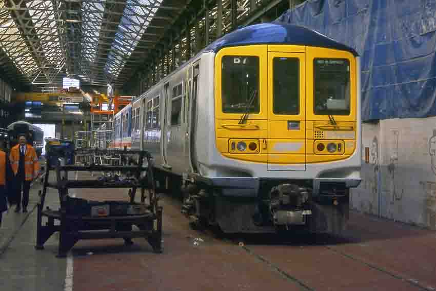 BR class 319 unit in Eastleigh Works for conversion to 319/3 standard for Thameslink operation. Believed to be 319039. Scanned from a Fujichrome 35mm slide.